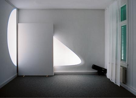 The picture shows Michel Verjux`s "o.T.", 2005. Photo by Matthias Wagner K.